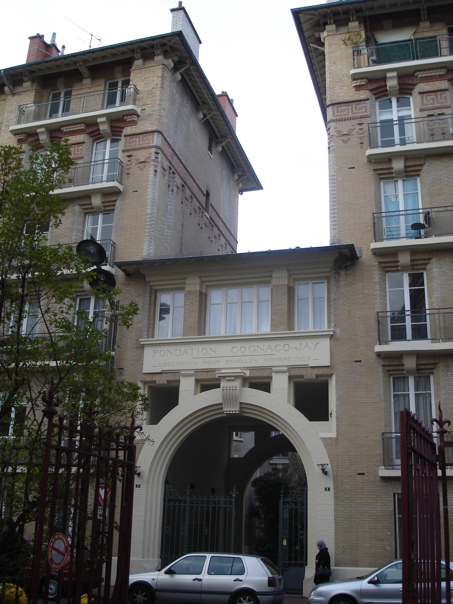 3-5 rue Baudin. Social housings built at the beginning of the XXth century in Levallois-Perret by the Cognacq-Jay Association for the large families.